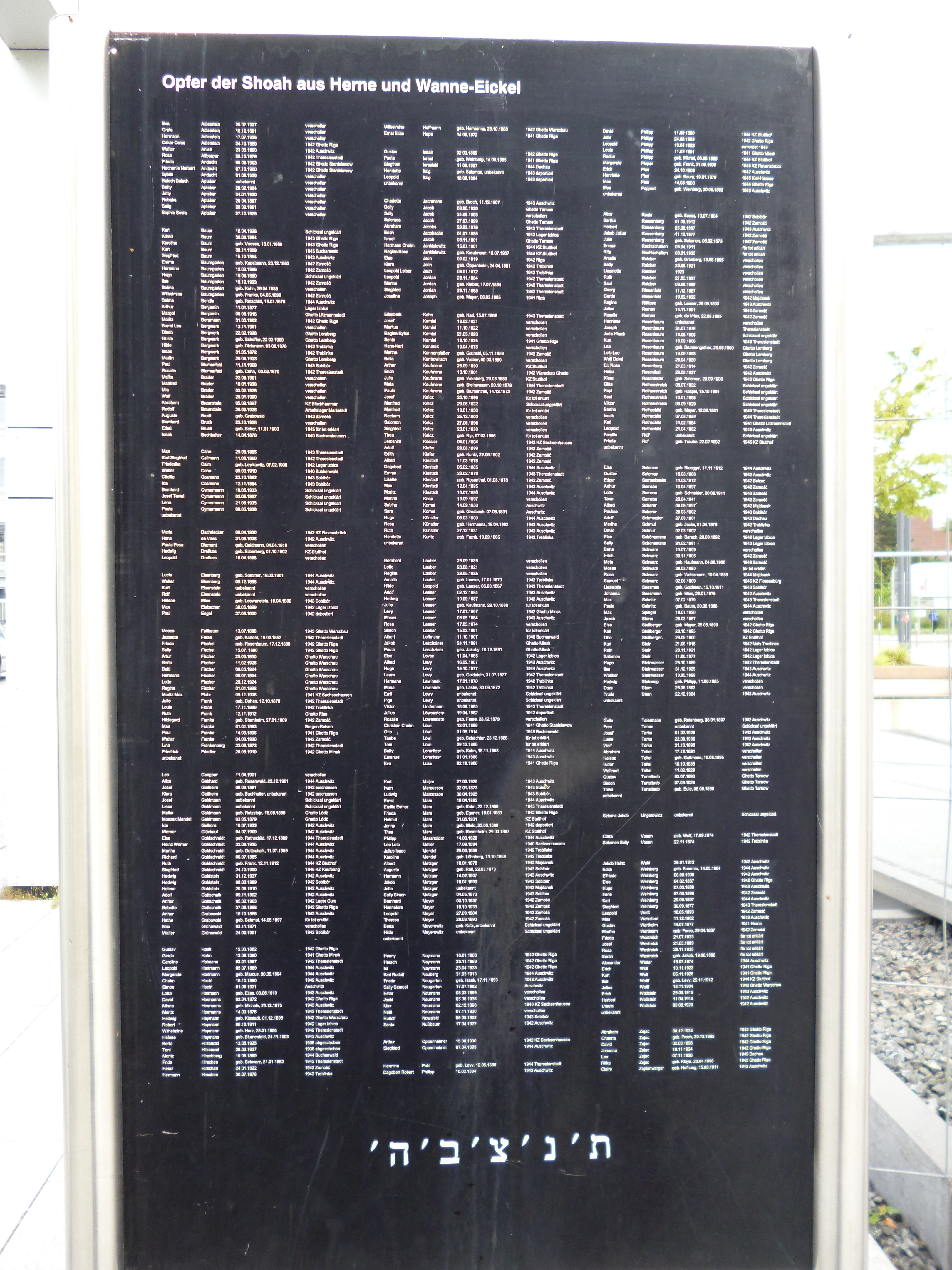 Shoah Memorial, Willi-Pohlmann-Platz, Herne